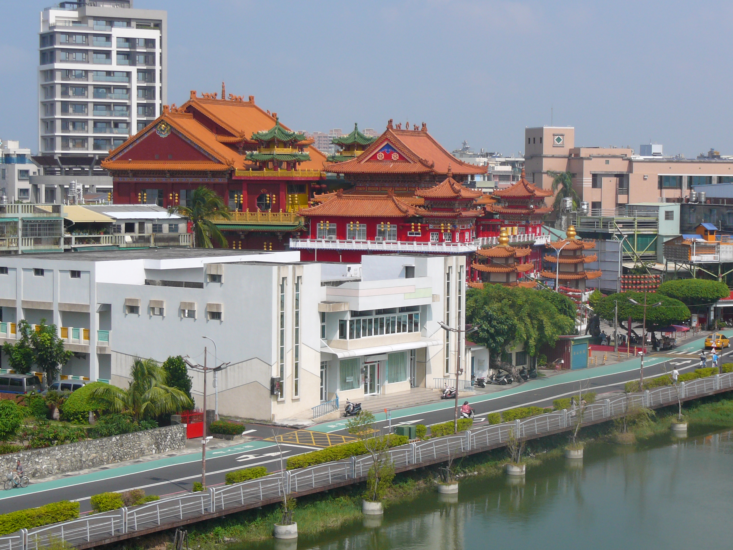 Liantan Road view from Dragon and Tiger Pagodas, Lotus Pond